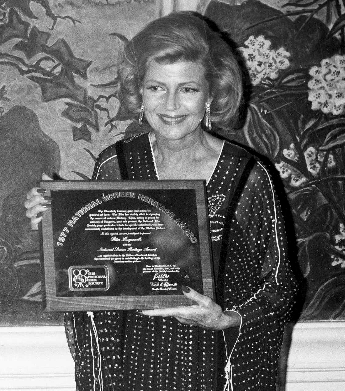 Photo of actress Rita Hayworth at a National Film Society covention in Washington, DC